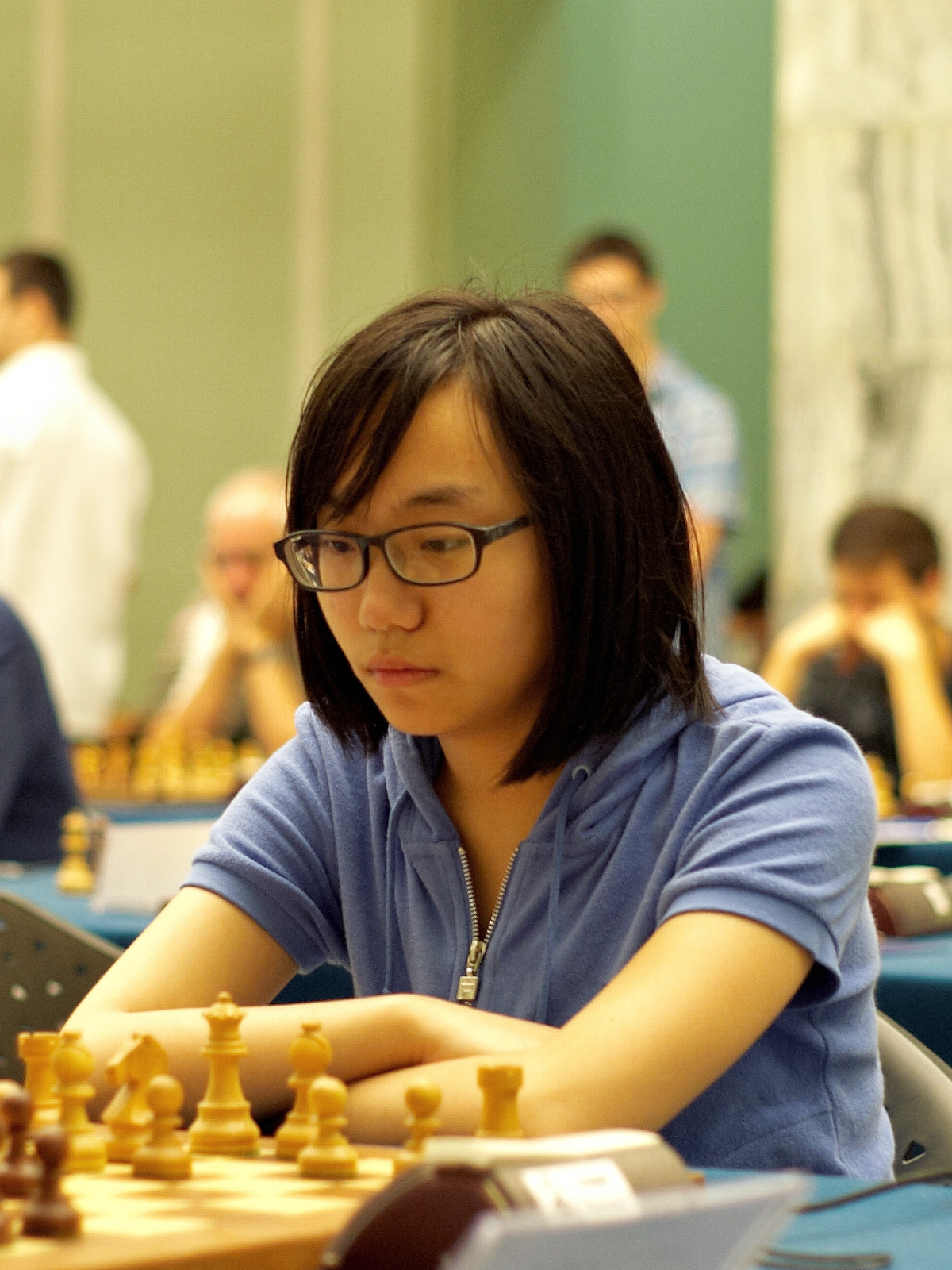 WGM Lei Tingjie, MetLife Warsaw Najdorf Chess Festival 2014.